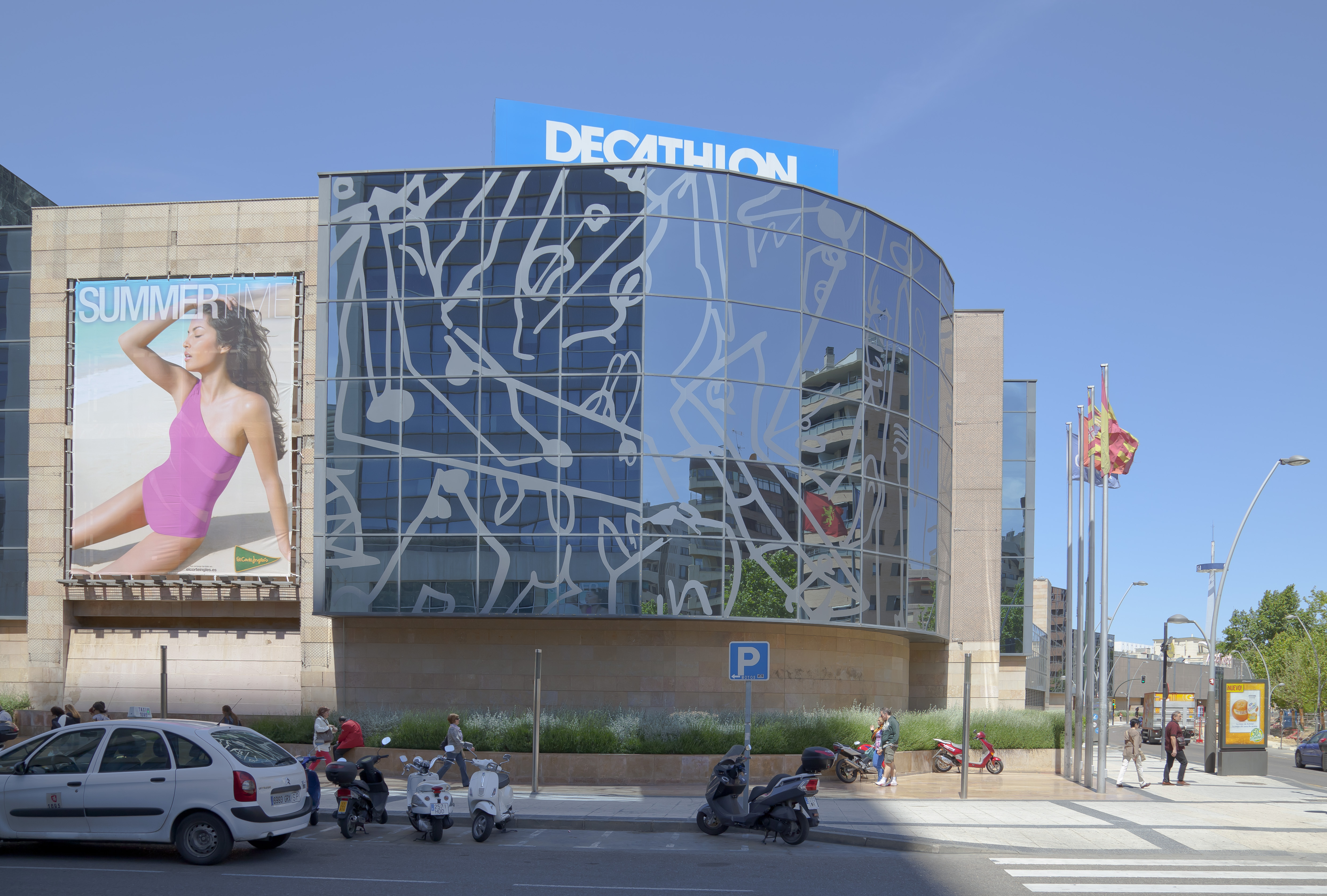 Mall Grancasa, Saragosssa, Spain